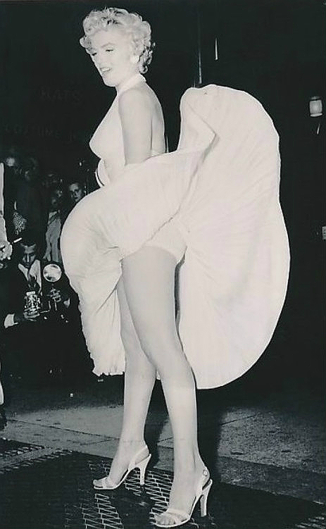 Photo of Marilyn Monroe taken while The Seven Year Itch was being filmed in New York City. This was being shot outside and in public. There were roughly 2,000 bystanders when this was being filmed. Those with cameras were easily able to take photos--a man with a still flash camera is seen in this photo in the back of Monroe. This is one of the photos from the "skirt scene" where Monroe's skirt is blown up by air from the subway grate she is standing on.